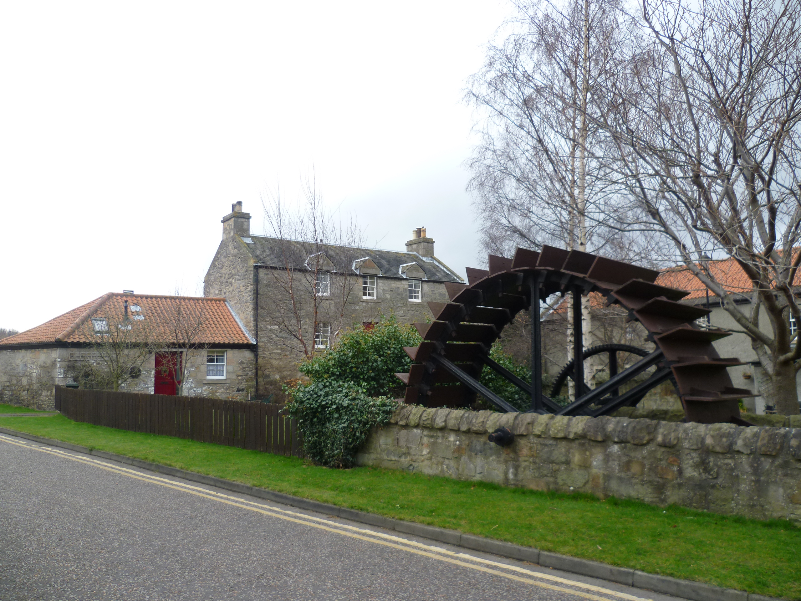 Waterwheel of Bonnington Mills moved to the site of the mill lade in the 1980s, with Bonnyhaugh House and the original dyeing room (later a smiddy) alongside.